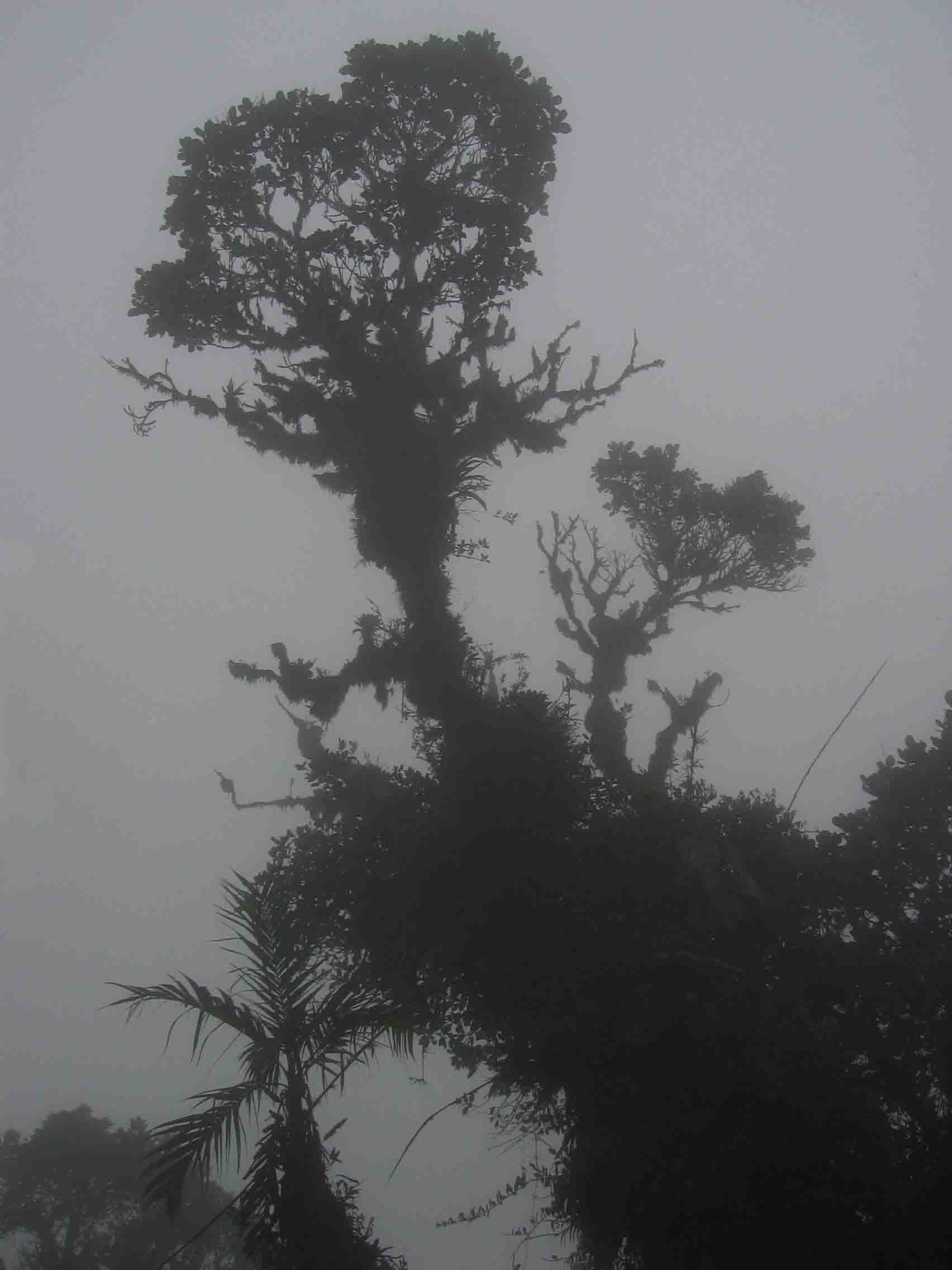 Photograph by Dirk van der Made (User:DirkvdM - for more photos see user:DirkvdM/Photographs). A cloud forest near Santa Fe, Panamá.